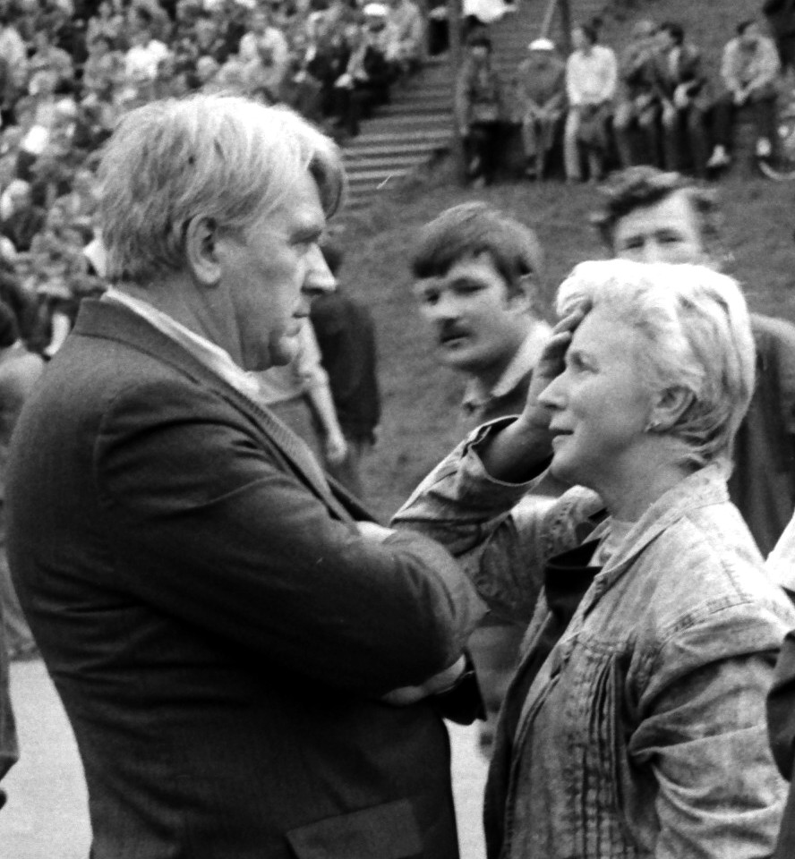 Journalist Laima Pangonytė and Antanas Terleckas, 1989-09-02 Kalnų parkas, Vilnius, LithuaniaLietuvių: žurnalistė Laima Pangonytė ir Antanas Terleckas, 1989-09-02 Kalnų parkas, Vilnius, Lietuva